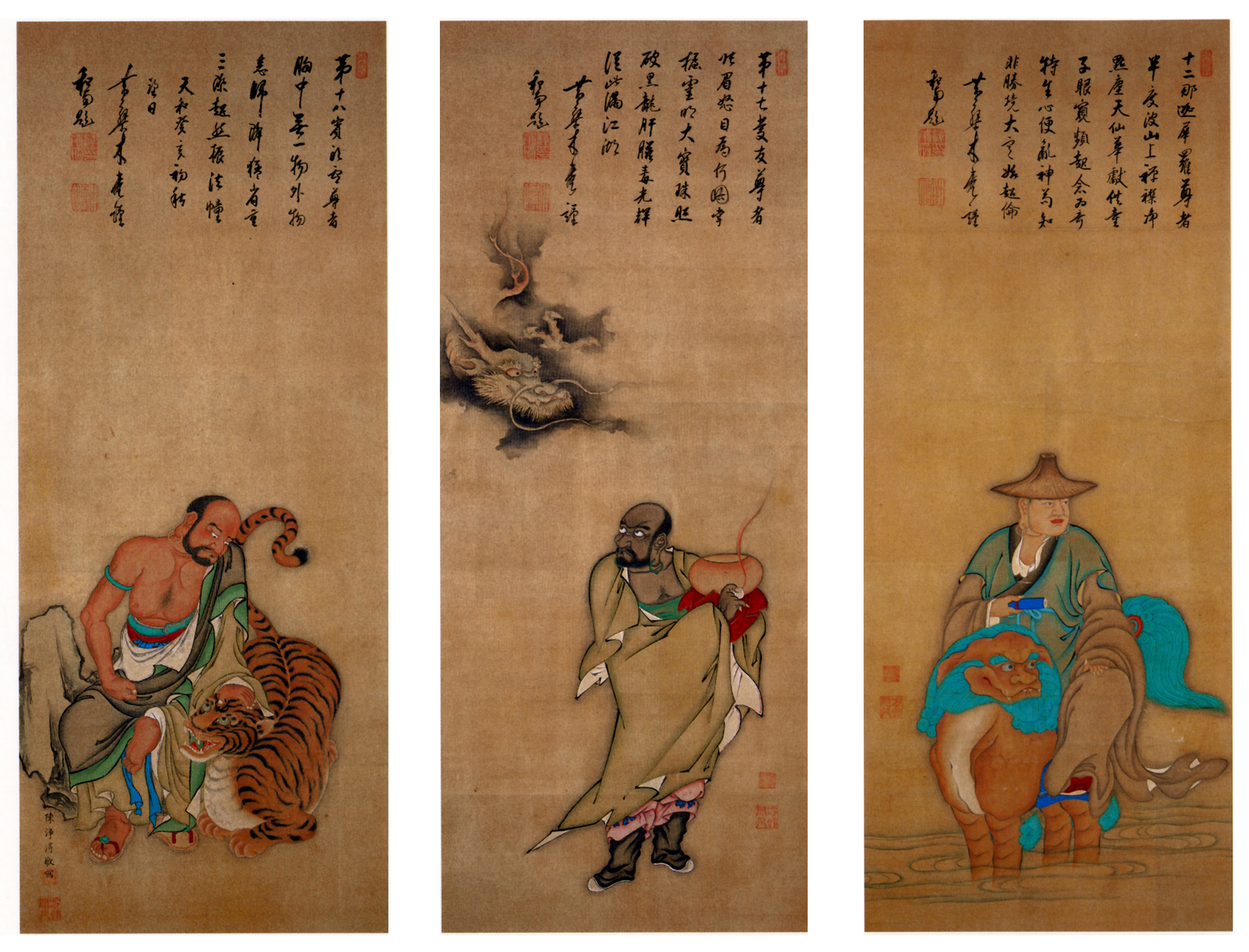 Eighteen Arhat,Chen Xuanxing,Inscription by Muan,color on silk ,18 hanging scrolls,Manpuku-ji Temple